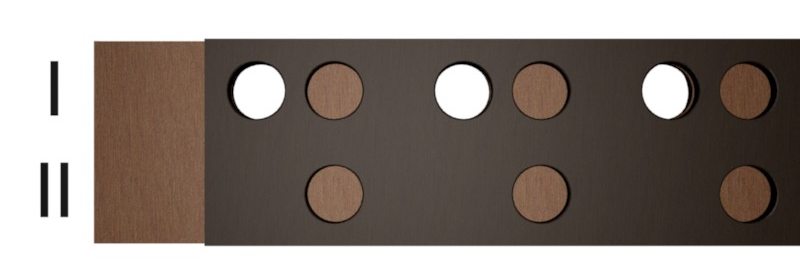 double-draw tracker of a pipe organ / first position